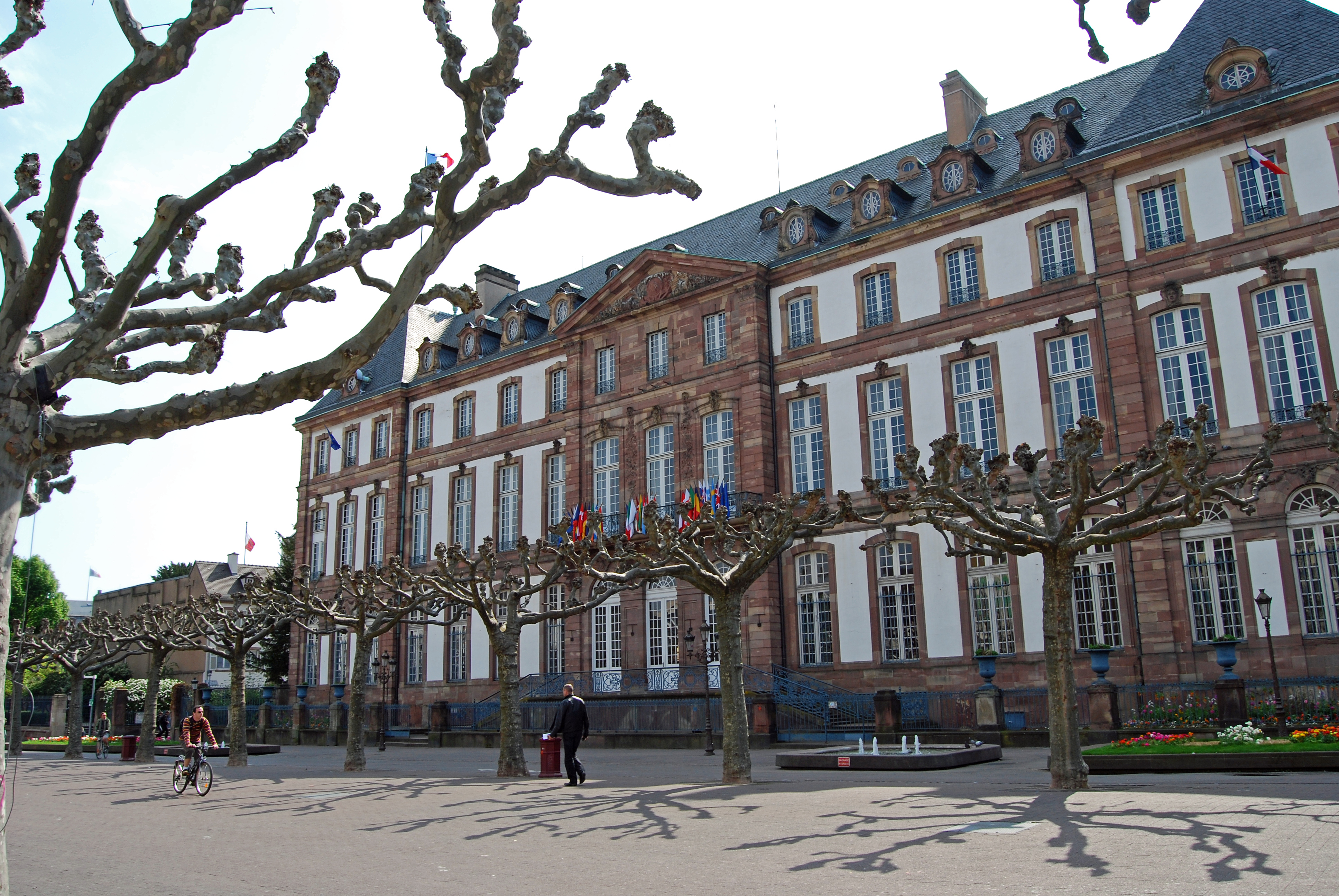 City Hall, Strasbourg